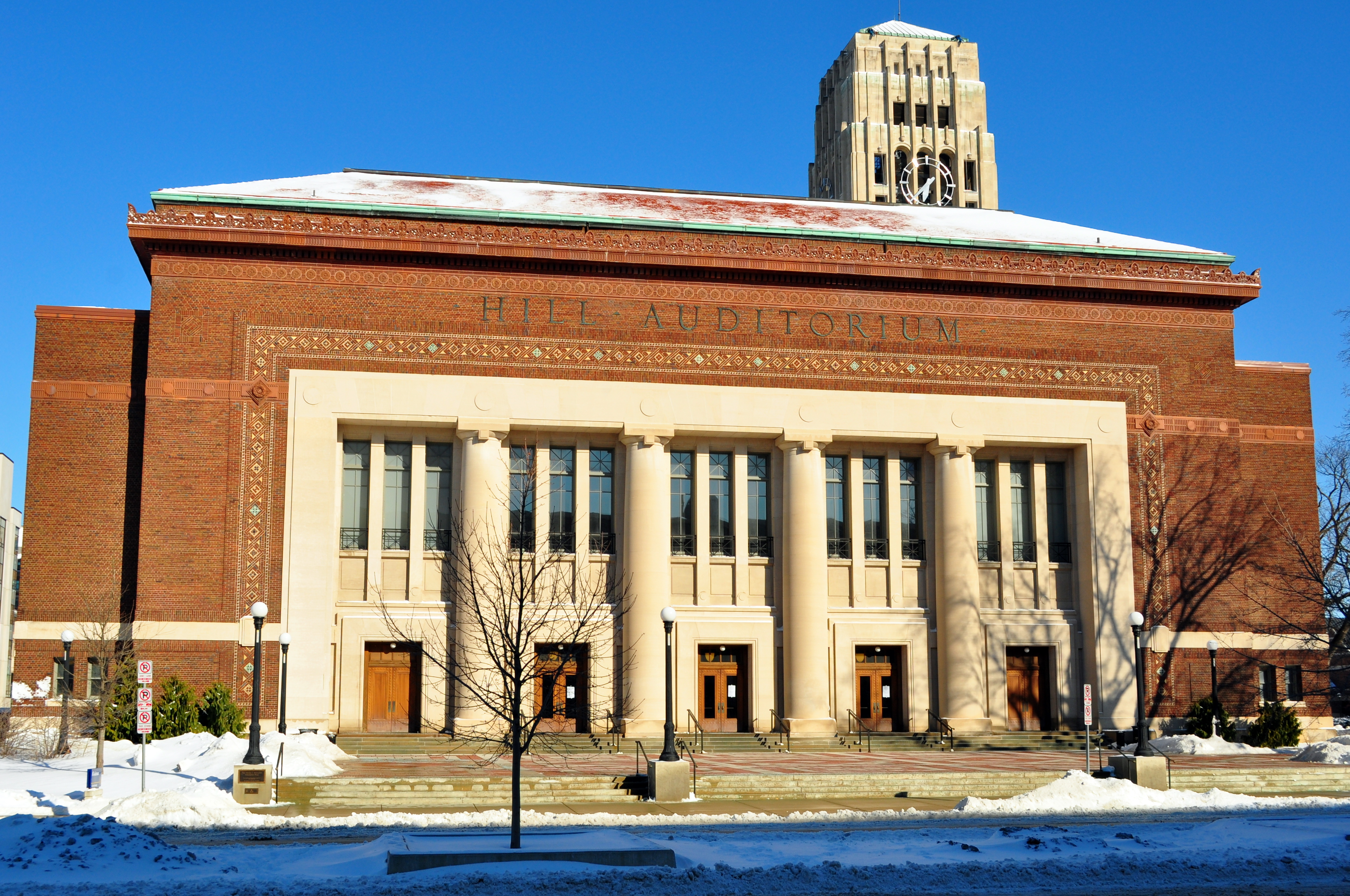 A view of Hill Auditorium during the Winter of 2011.